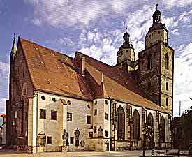 Stadtkirche in Wittenberg (Germany)